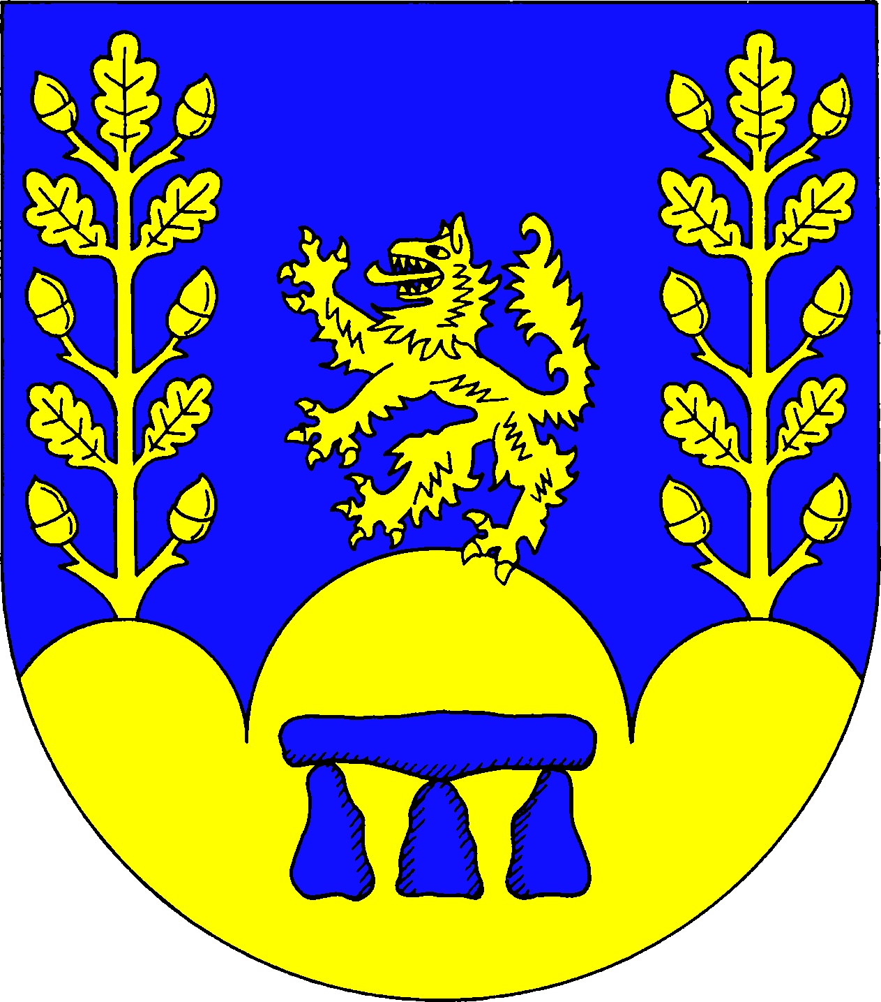 Coat of arms of the municipality Damendorf in Schleswig-Holstein, Germany.